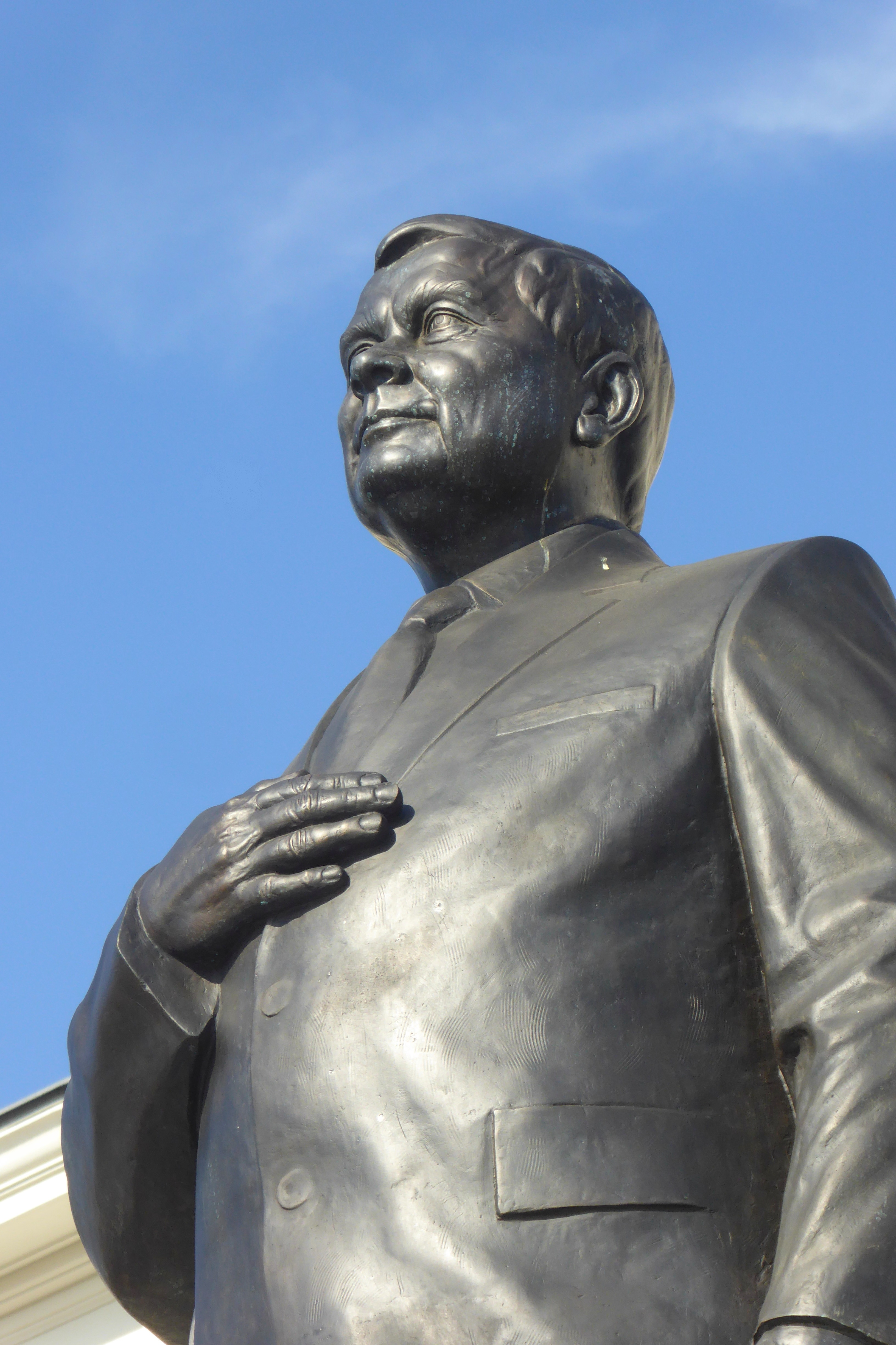 Statue of Lech Kaczyński along the Plac Marszałka Józefa Piłsudskiego in Warsaw.